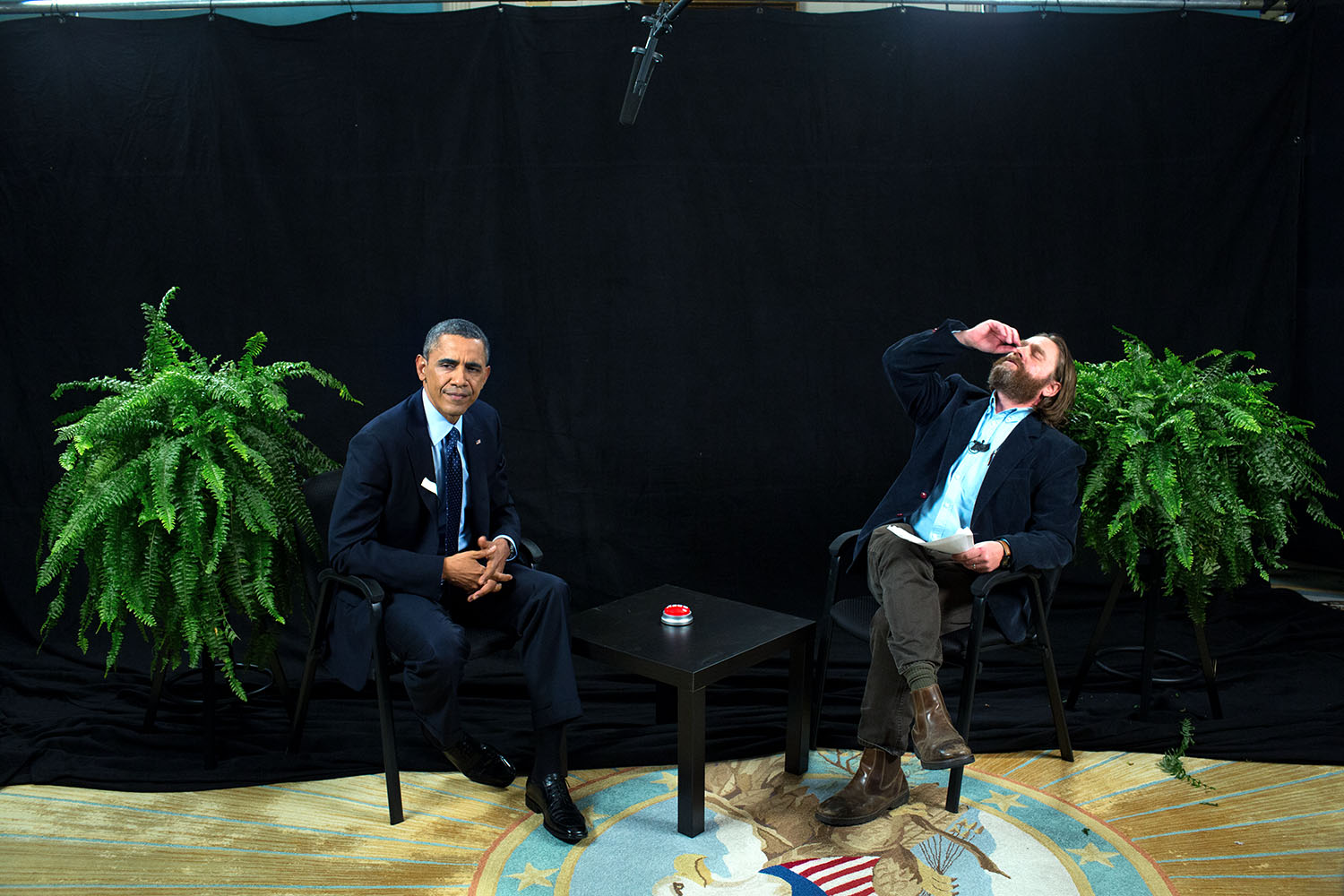 President Barack Obama participates in an interview with Zach Galifianakis for "Between Two Ferns with Zach Galifianakis" in the Diplomatic Reception Room of the White House, Feb. 24, 2014. (Official White House Photo by Pete Souza)